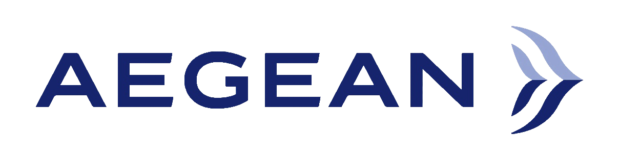 The logo of Aegean Airlines, revised in February 2020